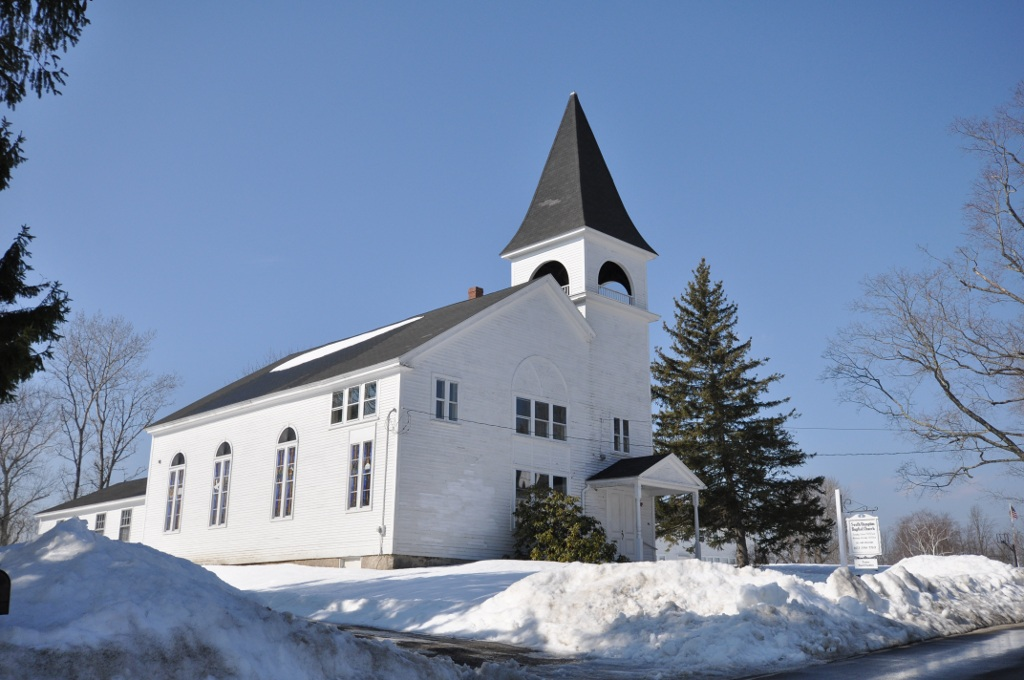 The Baptist church in South Hampton, New Hampshire; part of the Town Center Historic District.